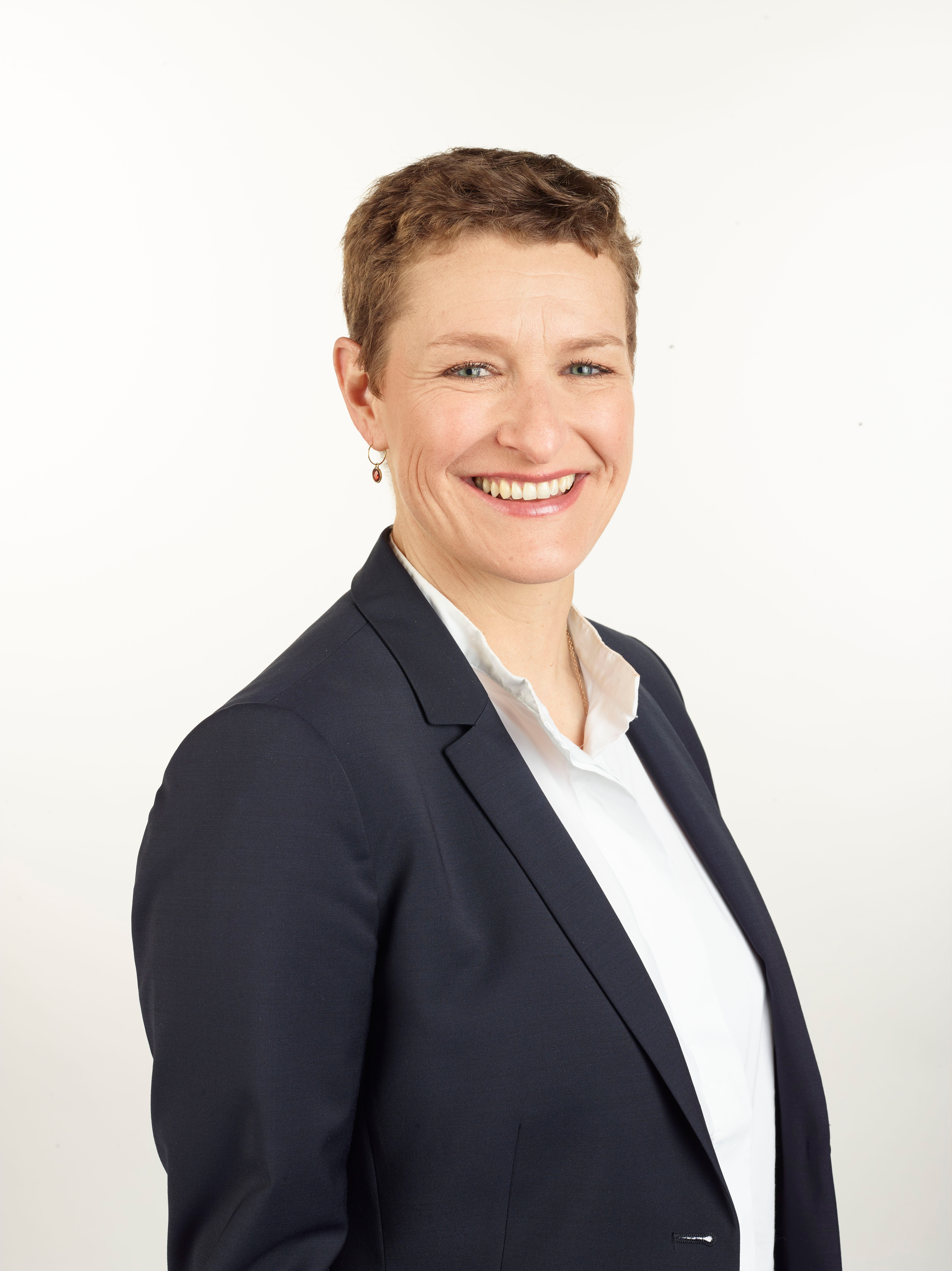 Marie-France Roth Pasquier, member of the Swiss National Council